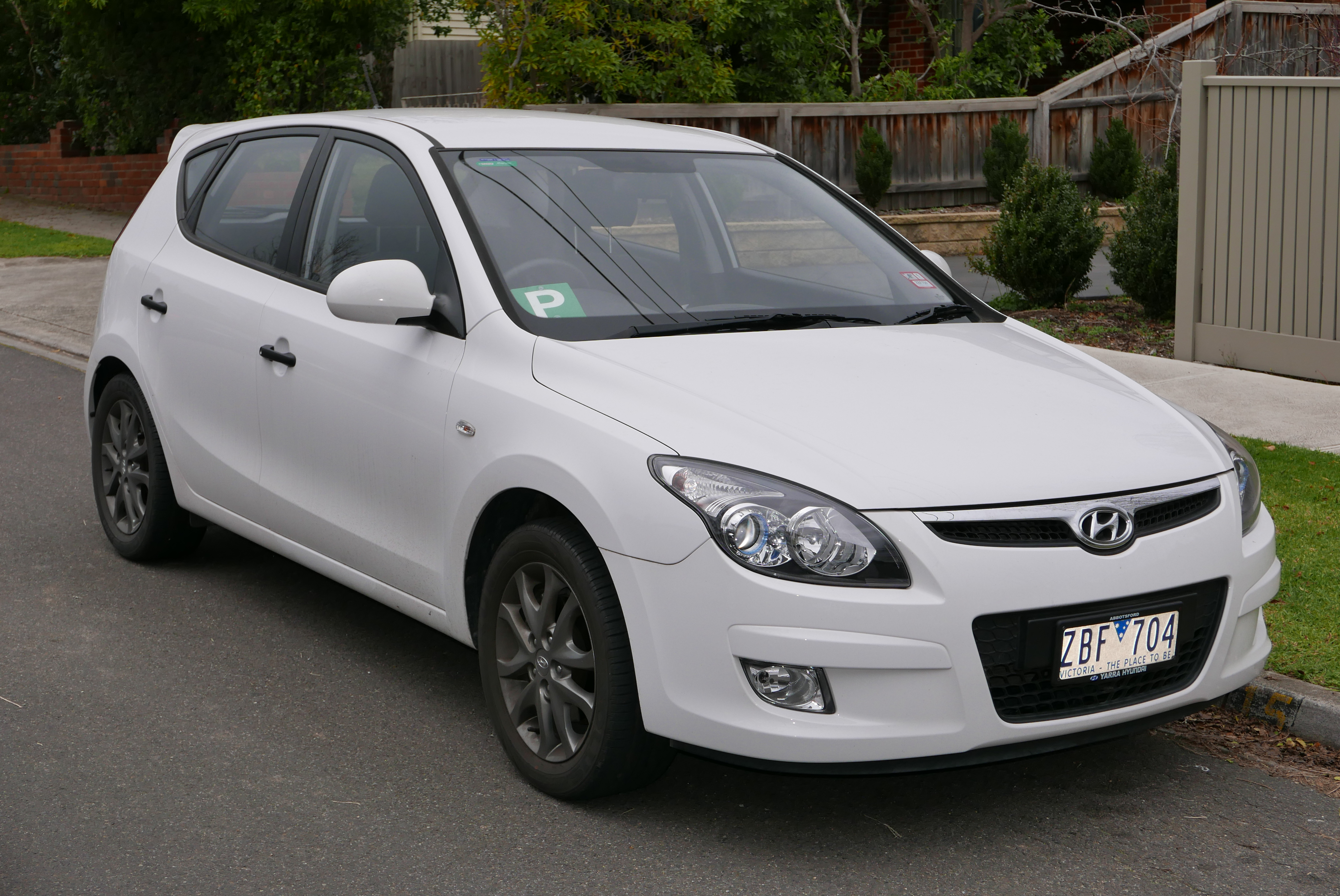 2012 Hyundai i30 (FD) Trophy hatchback. Photographed in Ivanhoe, Victoria, Australia. Vehicle registration enquiry resultsJurisdictionVictoriaRegistrationZBF704Chassis codeKMHDB51EMCU390477Engine codeG4GCBW092025Compliance date2012-03Year of manufacture2012